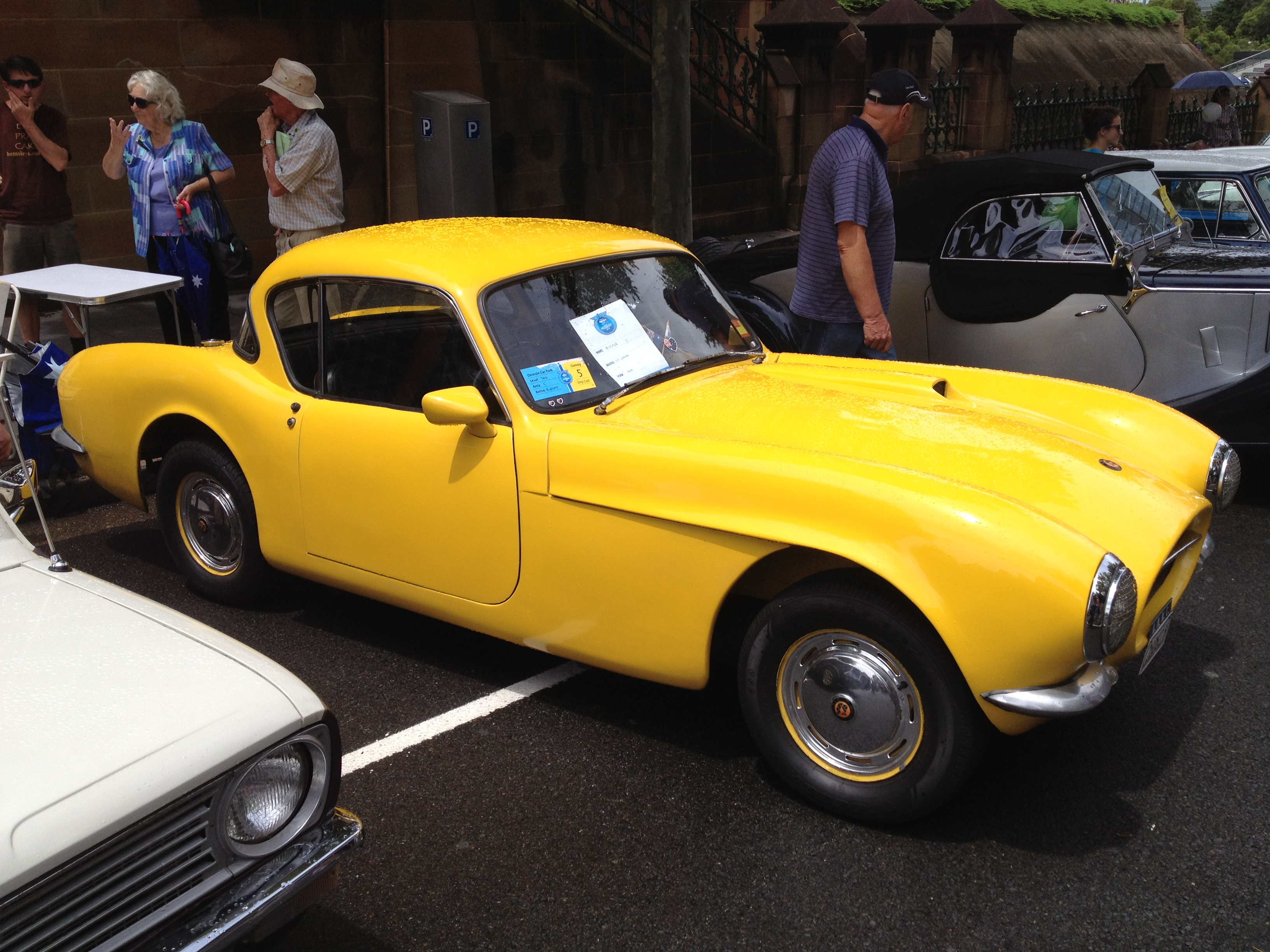 A Buckle 2.5 Liter coupe in Sydney.